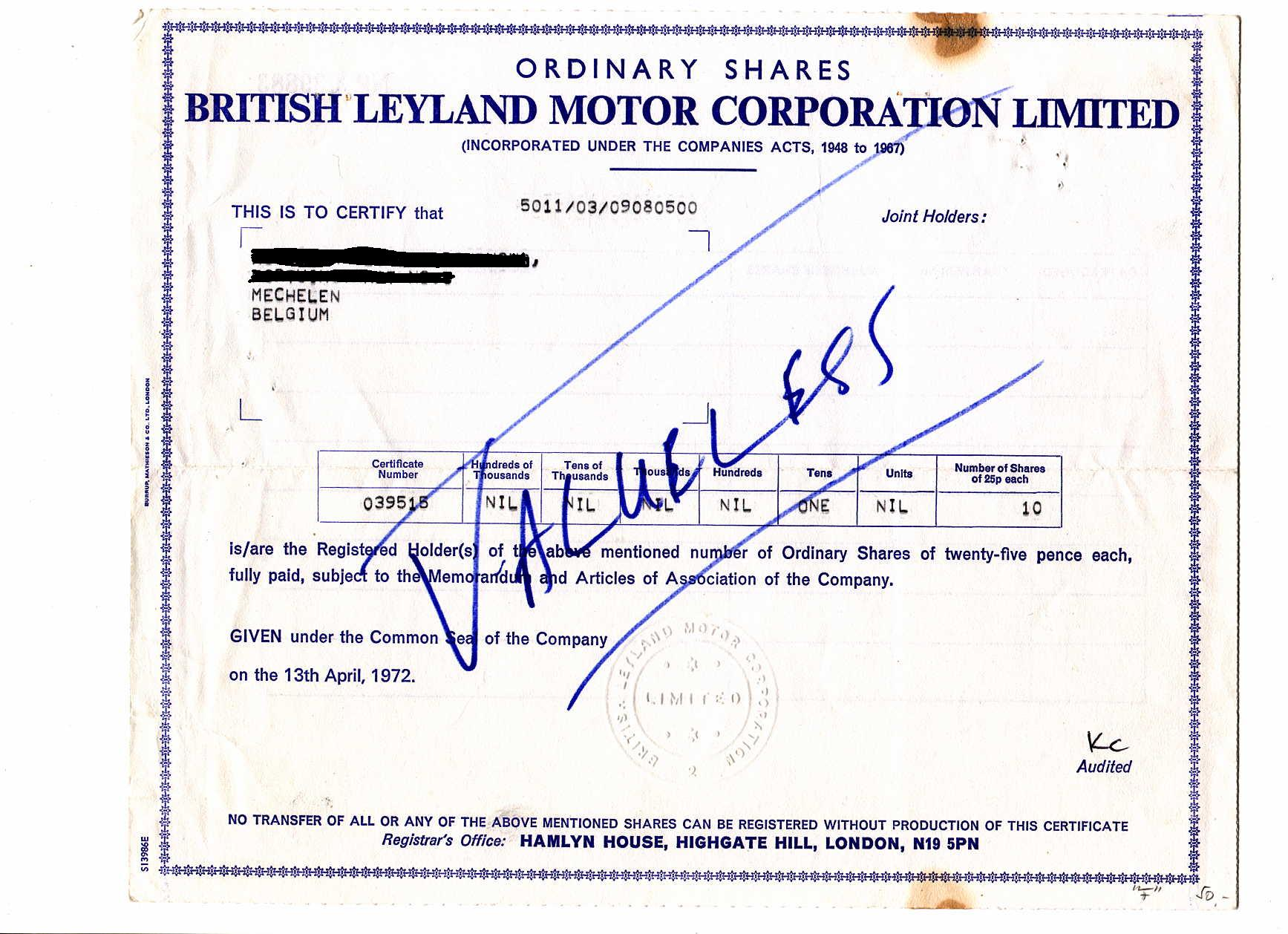 Scan from historic paper taken by user